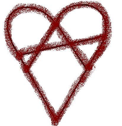 It's a symbol commonly referred to as an "Anarchy Heart", meaning "Love is Freedom", usually. Growing symbol within the folk punk movement.